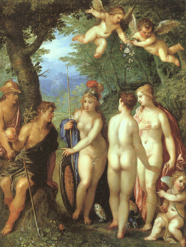 The Judgment of Paris